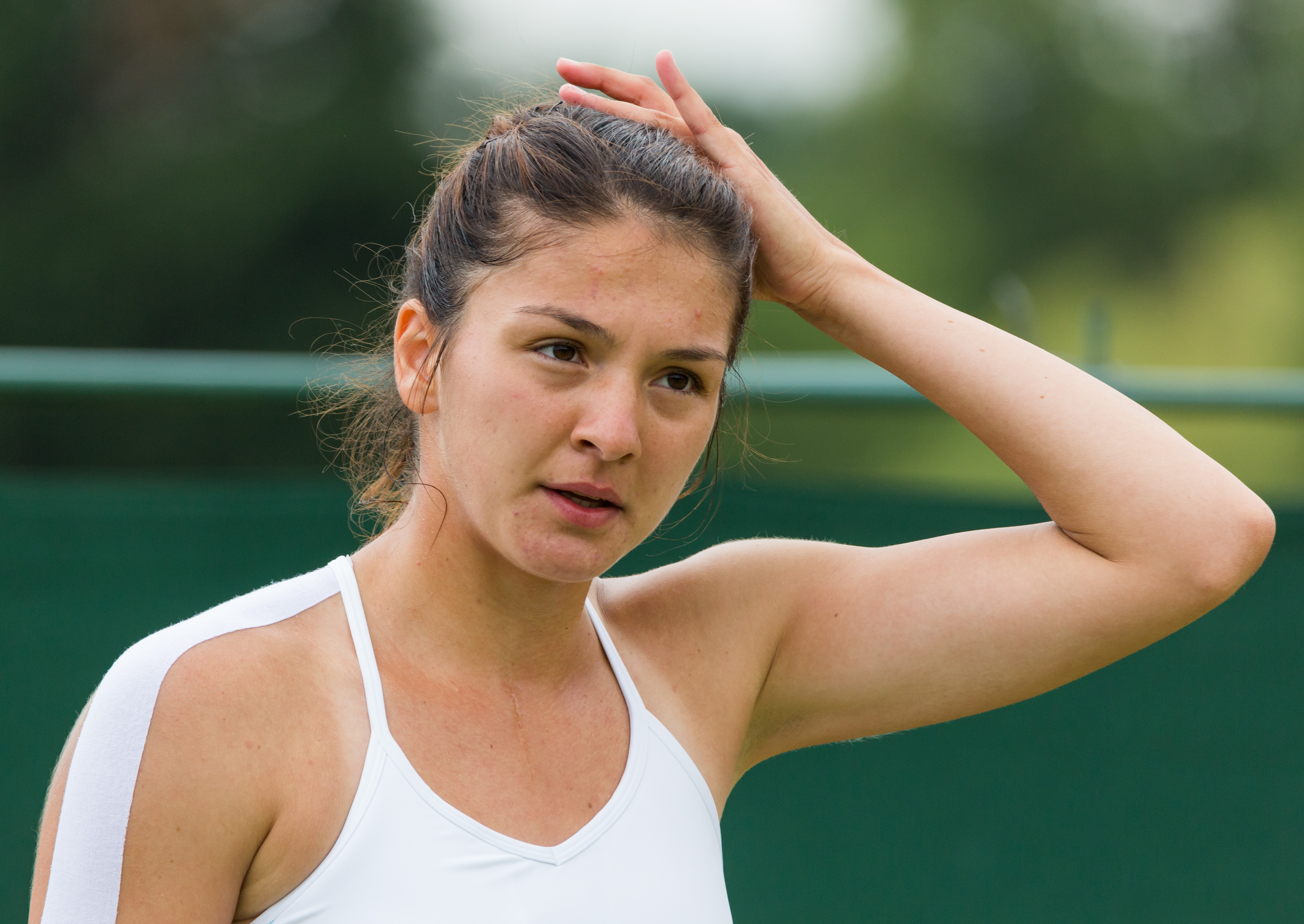 Margarita Gasparyan competing in the first round of the 2015 Wimbledon Qualifying Tournament at the Bank of England Sports Grounds in Roehampton, England. The winners of three rounds of competition qualify for the main draw of Wimbledon the following week.